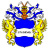 Studenec (Třebíč) CoA CZ